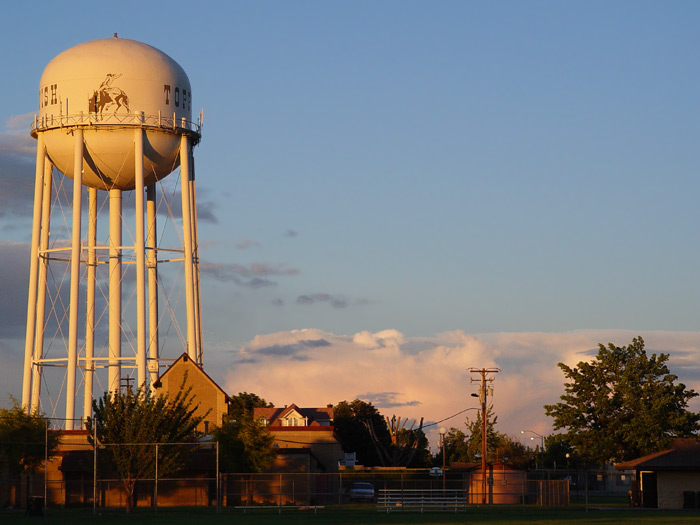 Water Tower in Toppenish